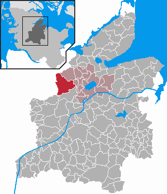 Locator maps of municipalities in Schleswig-Holstein - District Rendsburg-Eckernförde